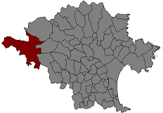 Location of Albanyà in Alt Empordà